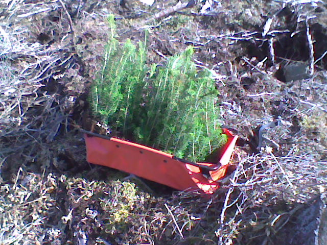 Tray and plants